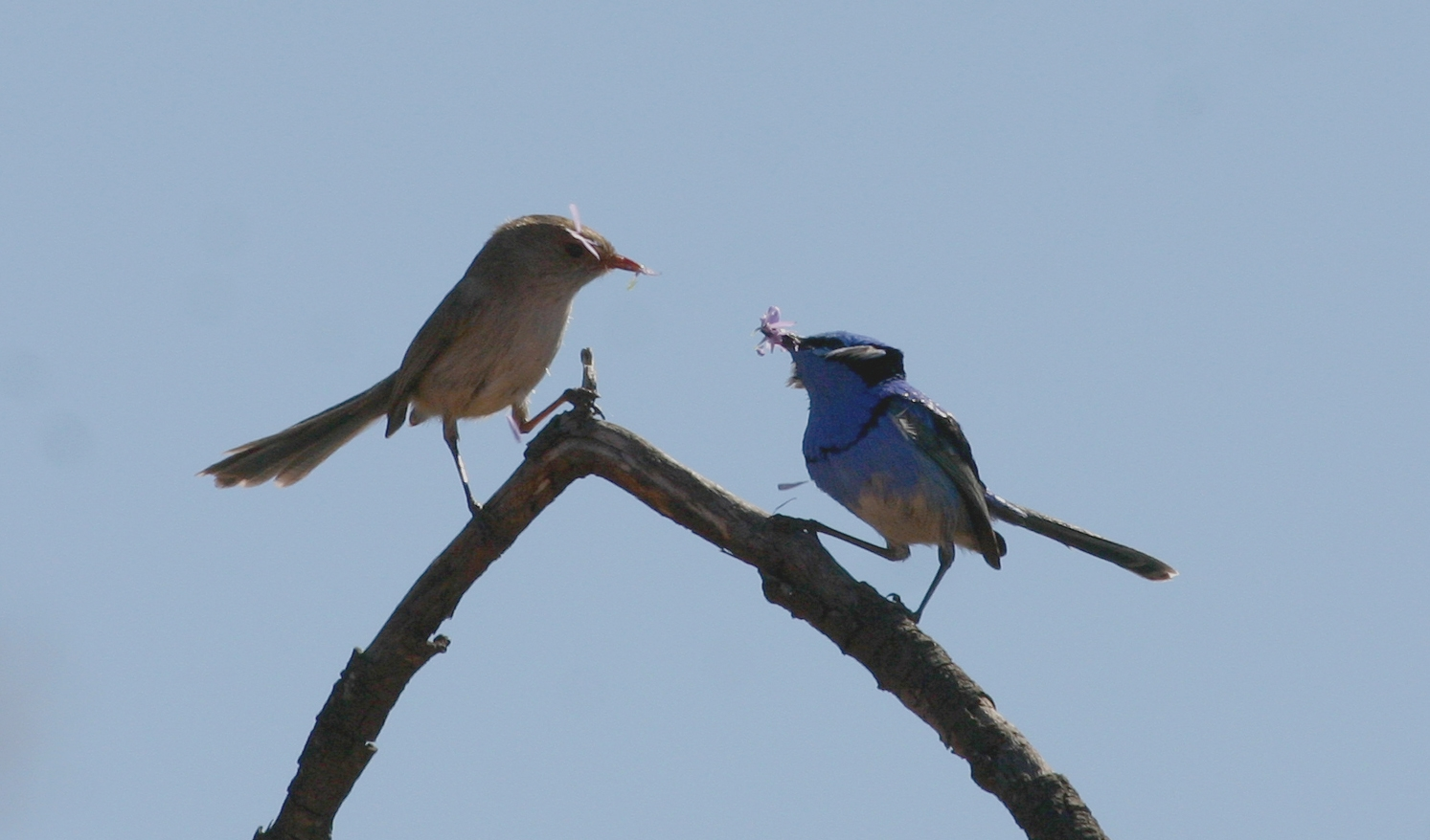 Splendid Fairy-wrens (subsp melanotus) - Capertee/Round Hill NR